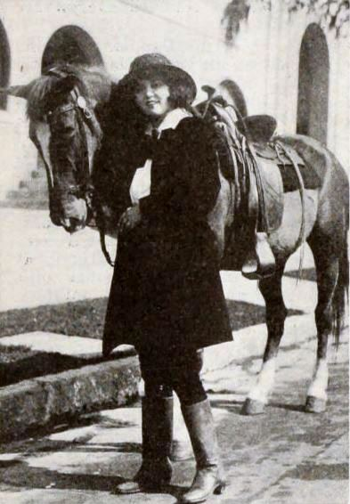 Still from the American western film Six Feet Four (1919) with Vola Vale, on page 25 of the May 24, 1919 Exhibitors Herald.